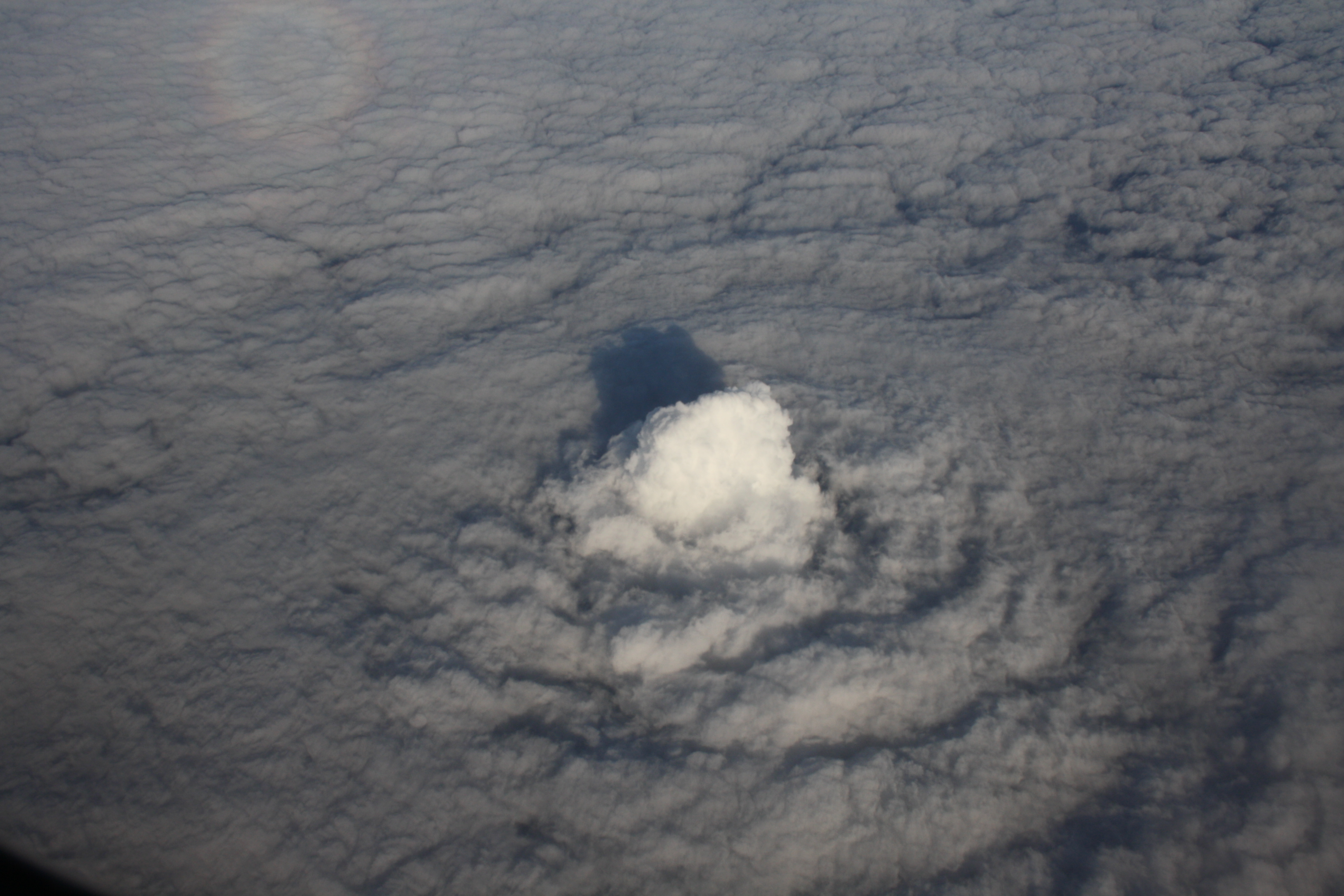 The steam plume of Weisweiler powerstation rises through the cloud layer. Picture taken shortly after taking off at Cologne-Bonn Airport, Runway 14L and making a right turn, flying pretty exactly westwards. Aboard flight AB9250 to Mallorca, looking northwards.